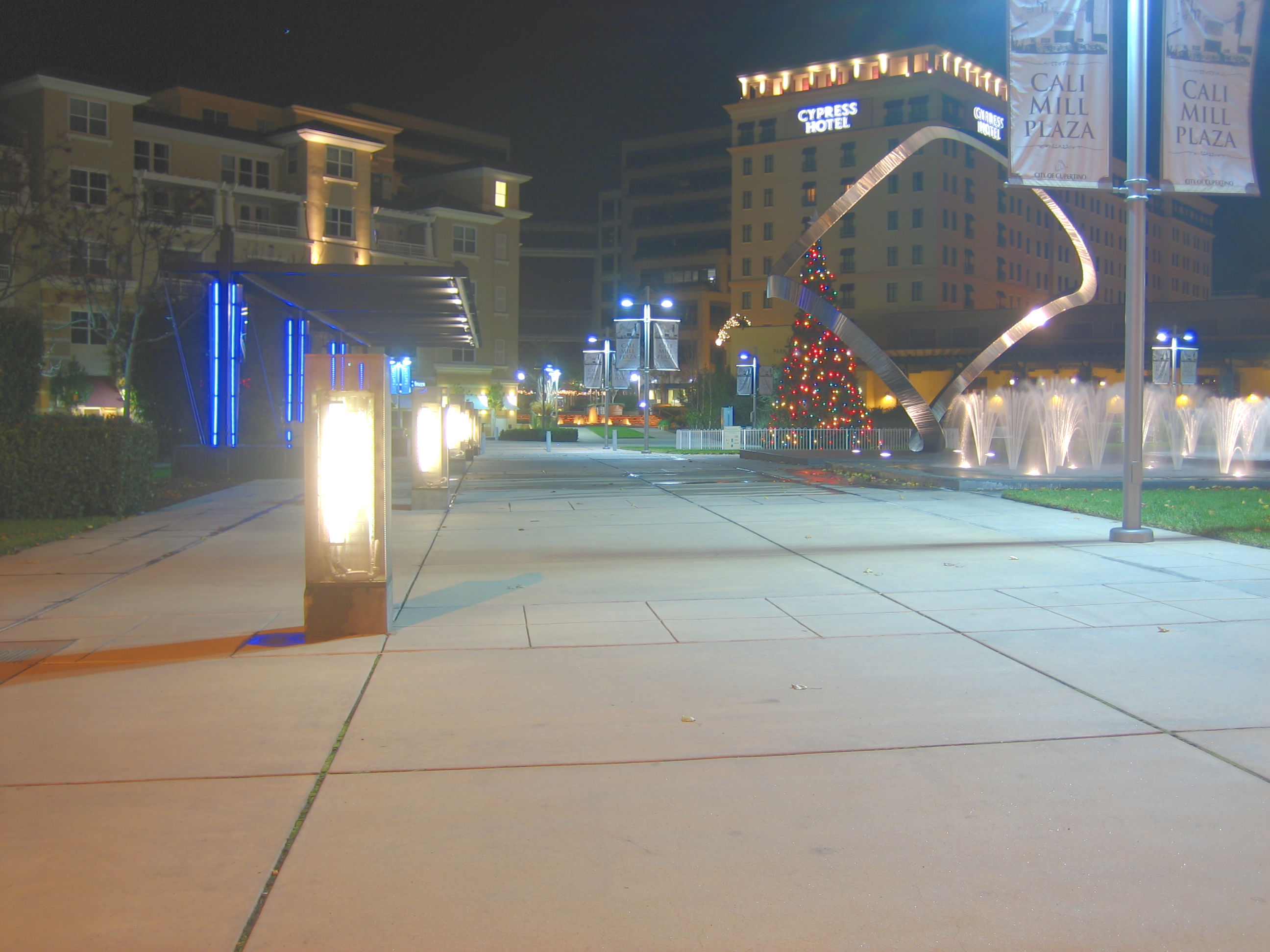 Holiday tree at Cali Mill Plaza at night in Cupertino, California